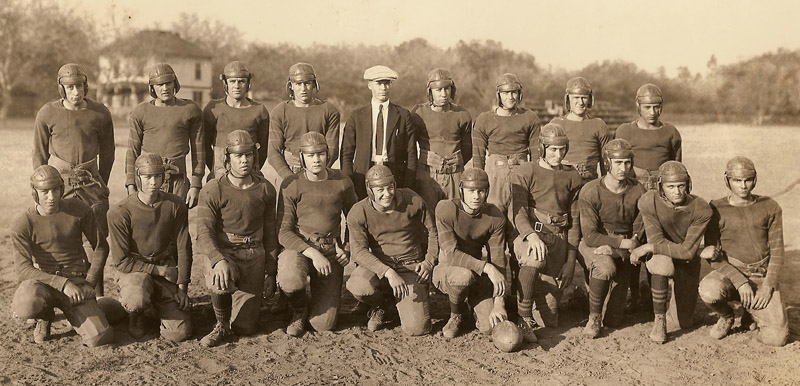 football